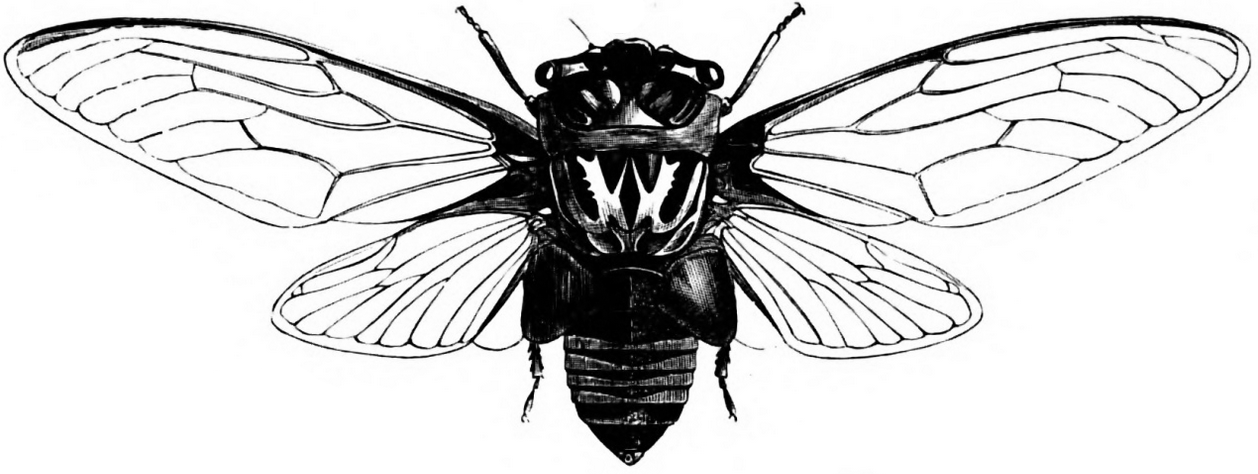 A drawing of Thopha saccata